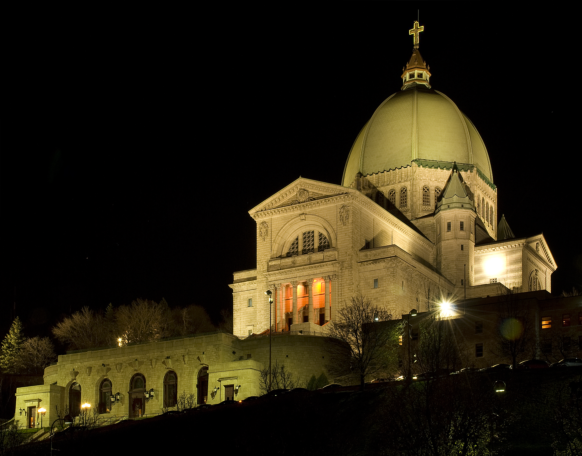 Saint Joseph's Oratory of Mount Royal. Montreal, Quebec, Canada.